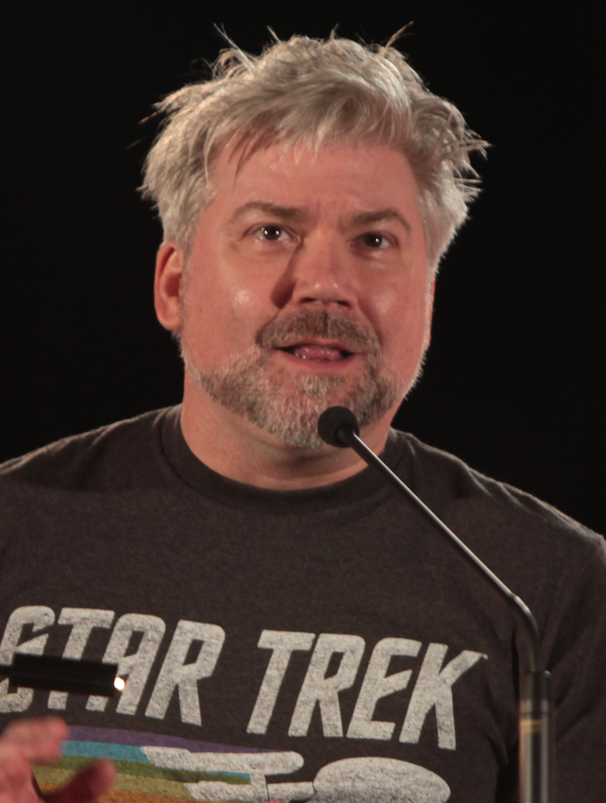 Original description: Chris Gore speaking at the 2015 Phoenix Comicon at the Phoenix Convention Center in Phoenix, Arizona.